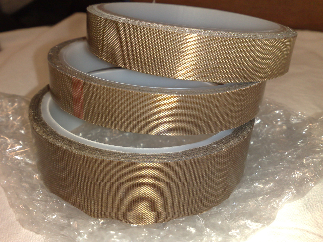 PTFE tapes with pressure-sensitive adhesive backing, rolls of 15 and 25 mm widths